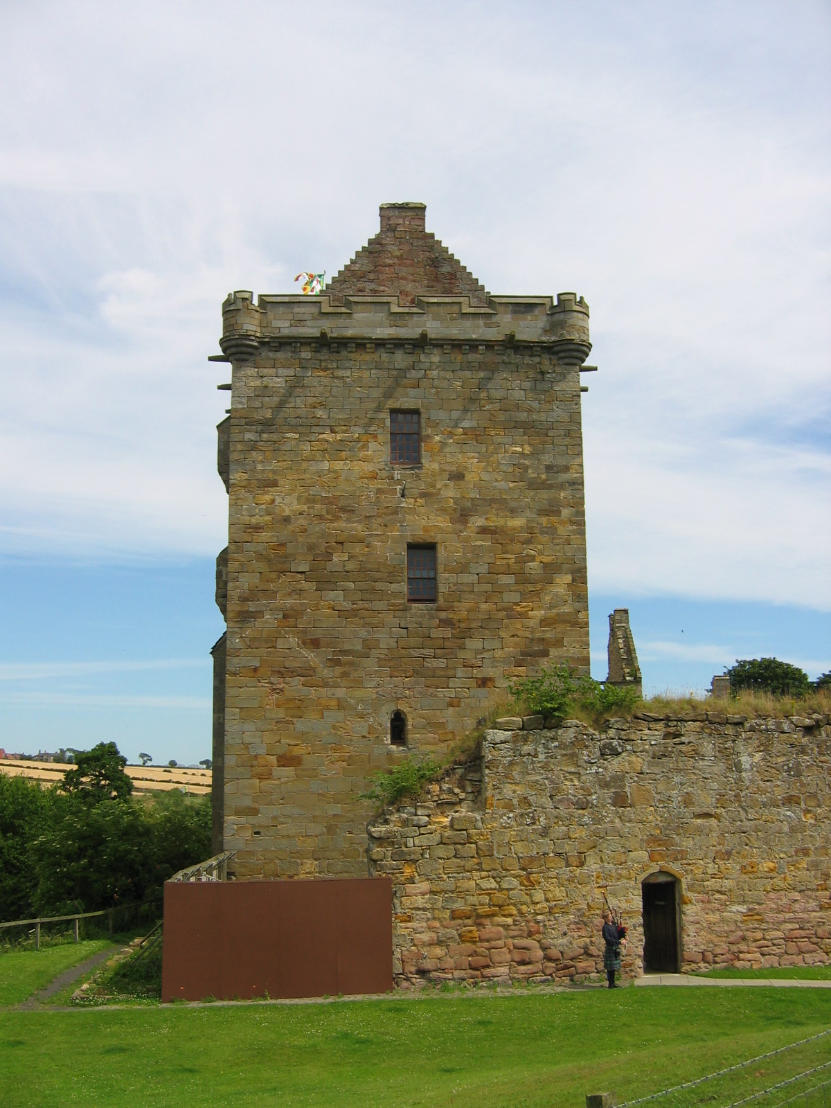 West facade of tower house, Balgonie Castle, Glenrothes, Scotland. Taken by User:Supergolden on 14 July 2006.